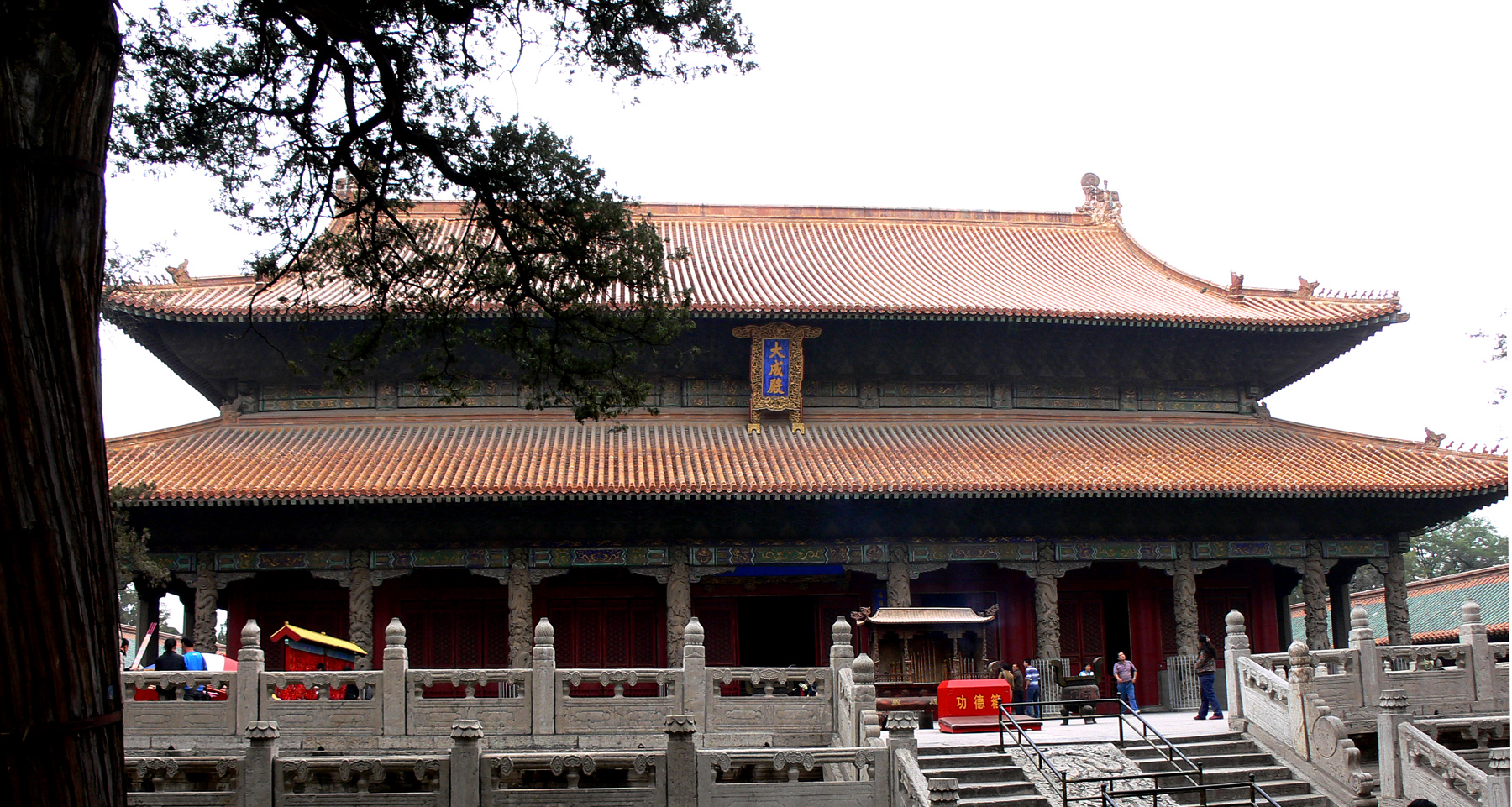 The Dacheng Hall, the main hall of the Temple of Confucius in Qufu